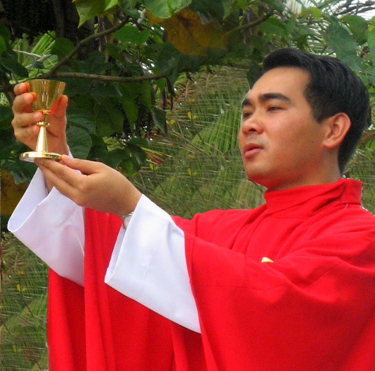 Father Ngo Priest of the French Catholic Community of Singapore